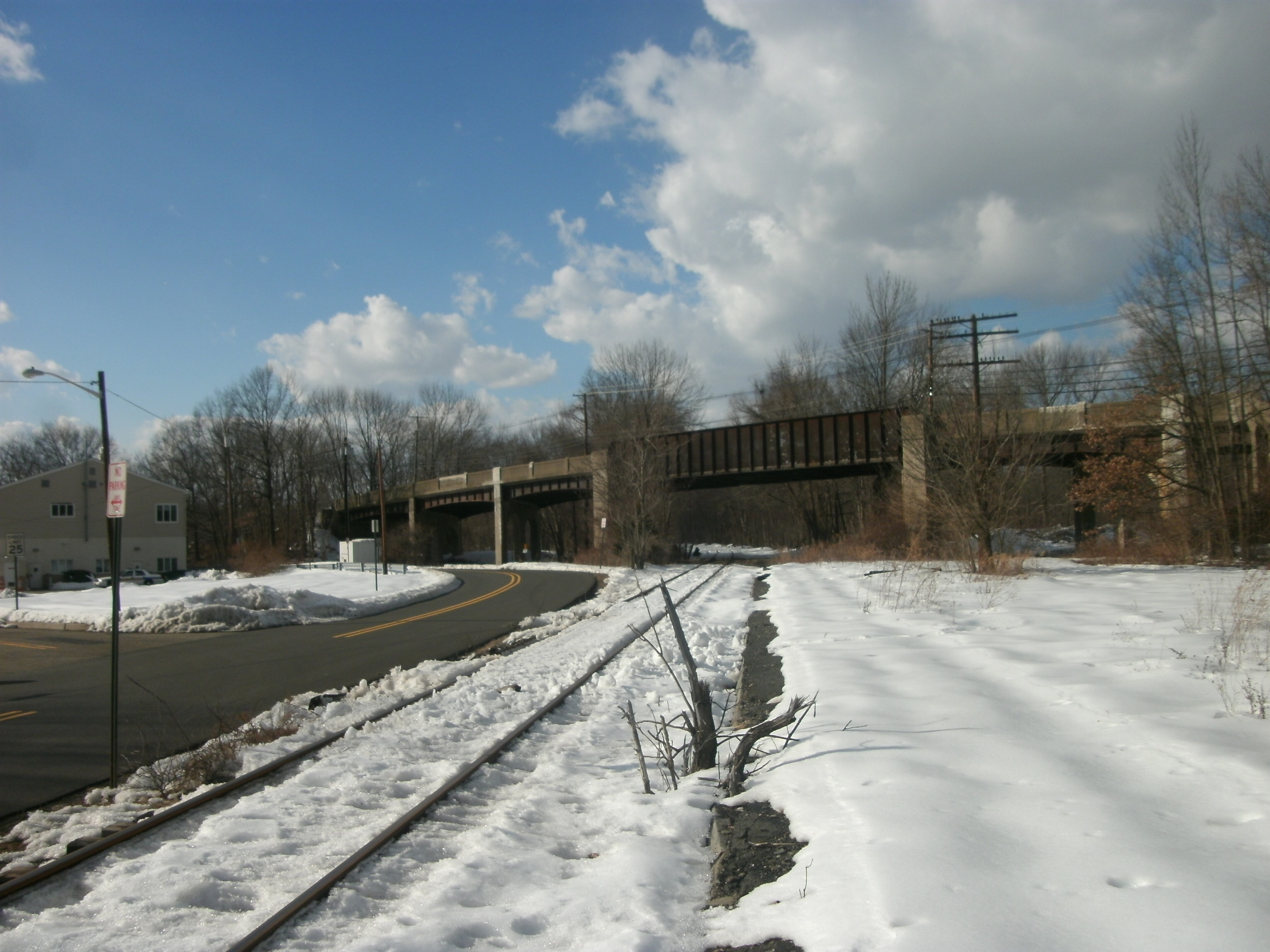 The site of the former Delaware, Lackawanna and Western Railroad Boonton Branch station in Mountain View, a part of Wayne, New Jersey. Parish Drive's overpass is overhead as the station platform pokes out from under the snow.